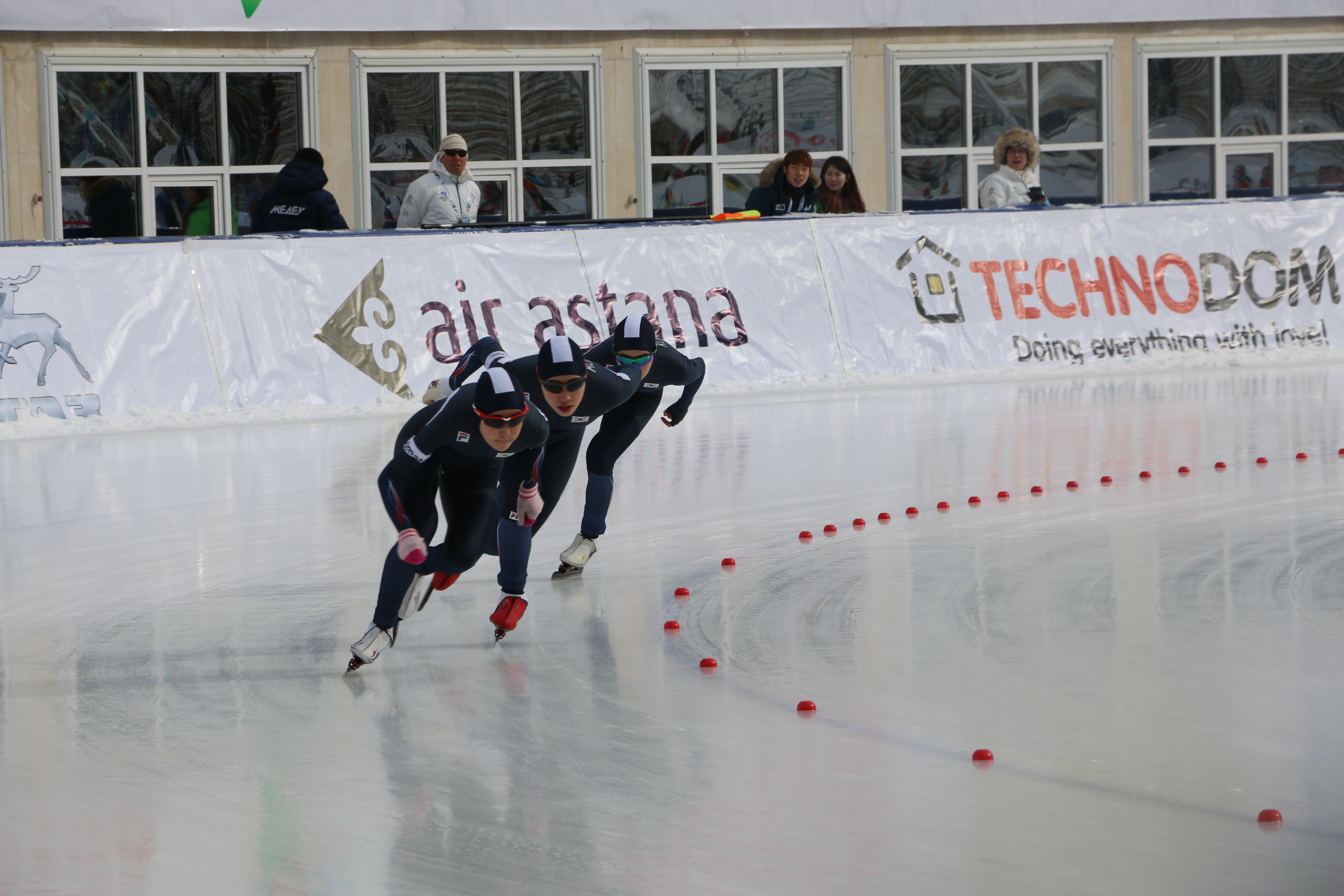 Universiade 2017. Speed Skating. Women's team pursuit. KOR - RUS. Team South Korea : Jun Ye-jin, Lim Jung-su, Park Cho-won.